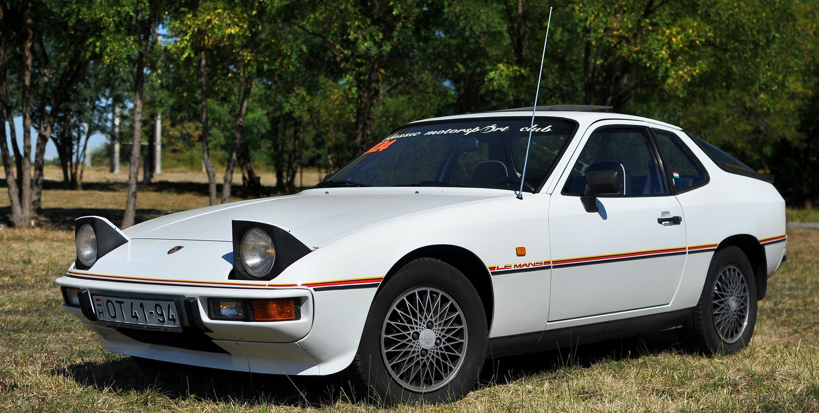 Porsche 924 Le Mans modell 1980